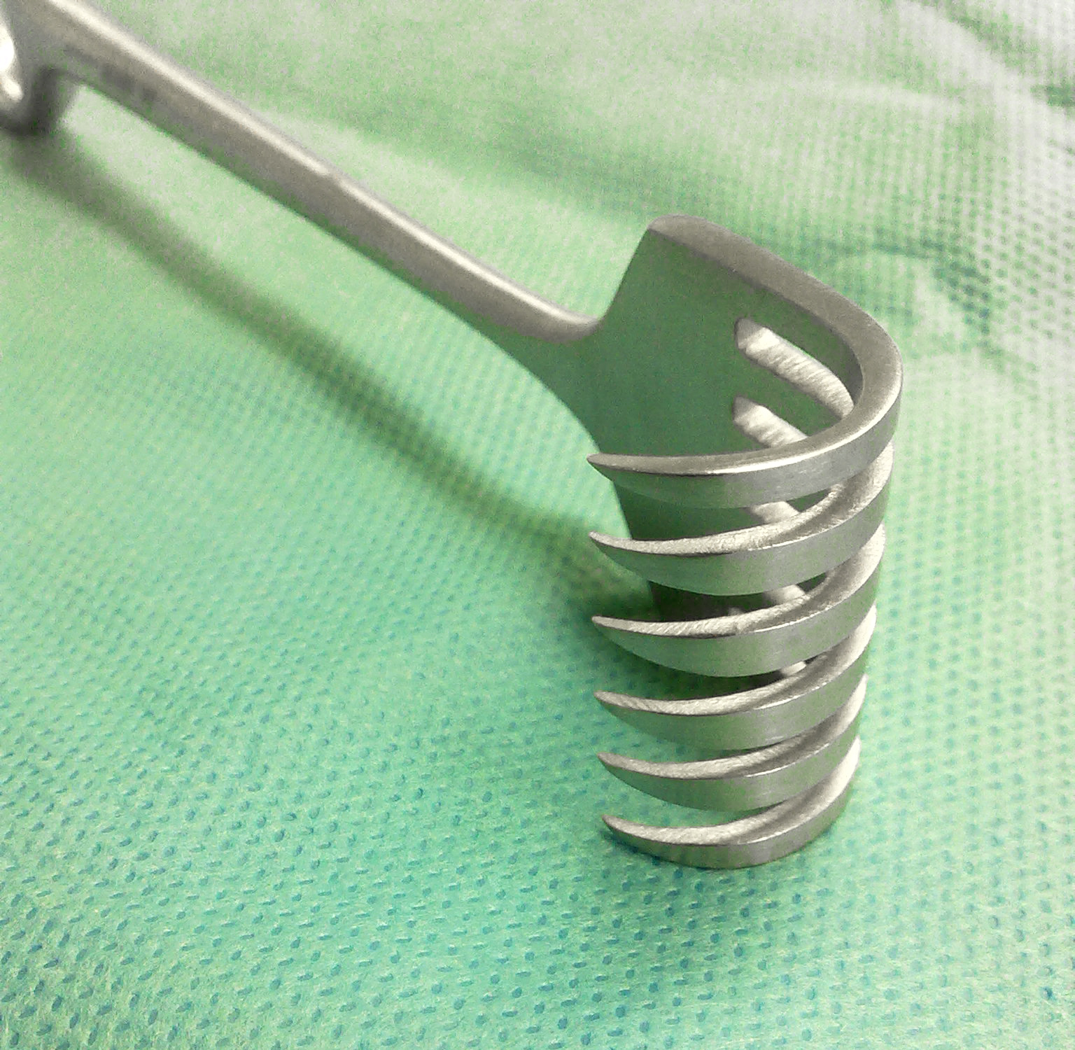 Surgical retractor